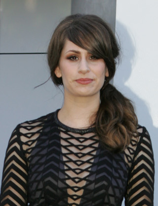 Aria Awards 2013 in Sydney Australia